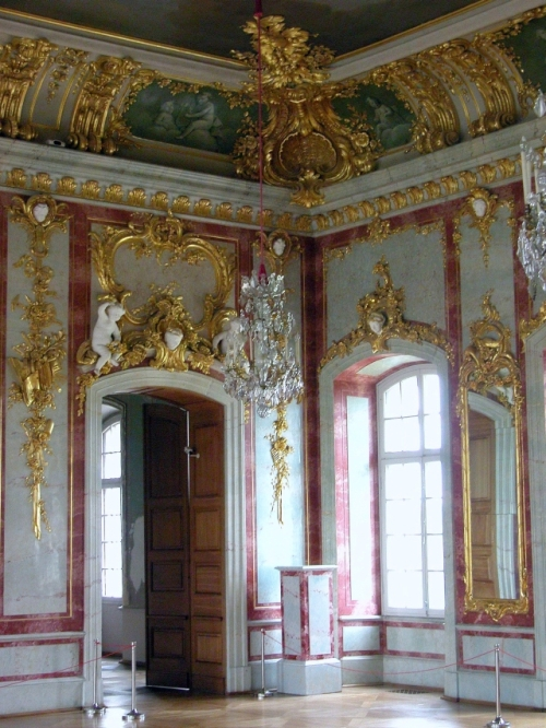 Pilsrundāle, Latvia: Interior.